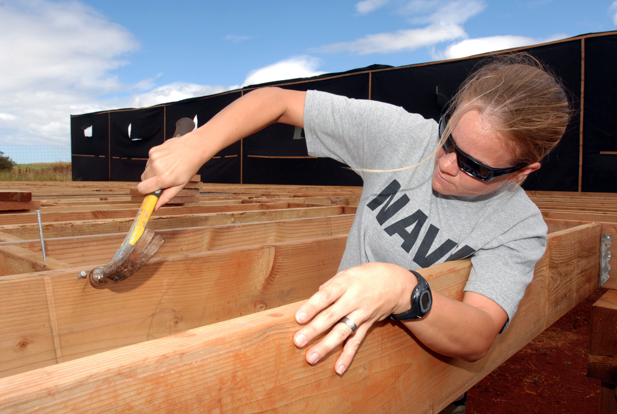 U.S. Navy Petty Officer 2nd Class Mehgan Rodriguez works on a deck for a house being built with the Pacific Missile Range Facility and Habitat for Humanity in Hanapepe, Hawaii, on July 10, 2009.